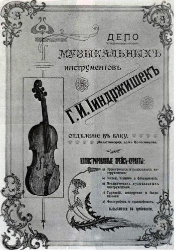 poster of „Jindříšek's Musical Instruments Depot“, Baku